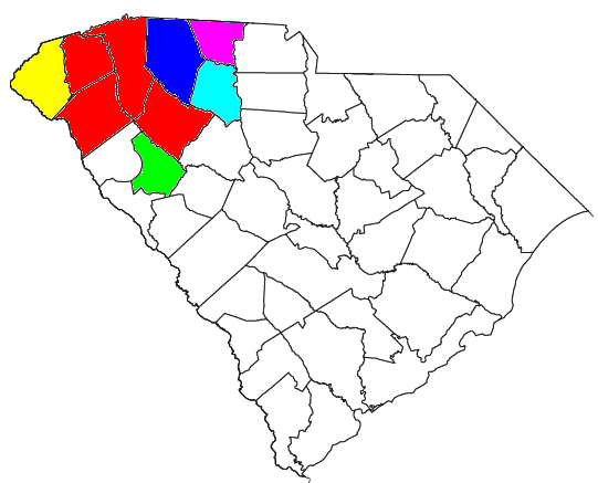 Locator map of the Greenville-Spartanburg-Anderson, SC CSA in the northwestern part of the U.S. state of South Carolina. The Six components of the CSA are colored separately: Red: Greenville-Anderson MSA Blue: Spartanburg MSA Yellow: Seneca μSA Light Green: Greenwood μSA Light Purple: Gaffney μSA Light Blue Union μSA